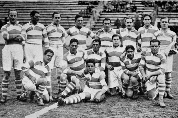 S.S. Lazio Rugby during the 1st even Italian rugby union championsip